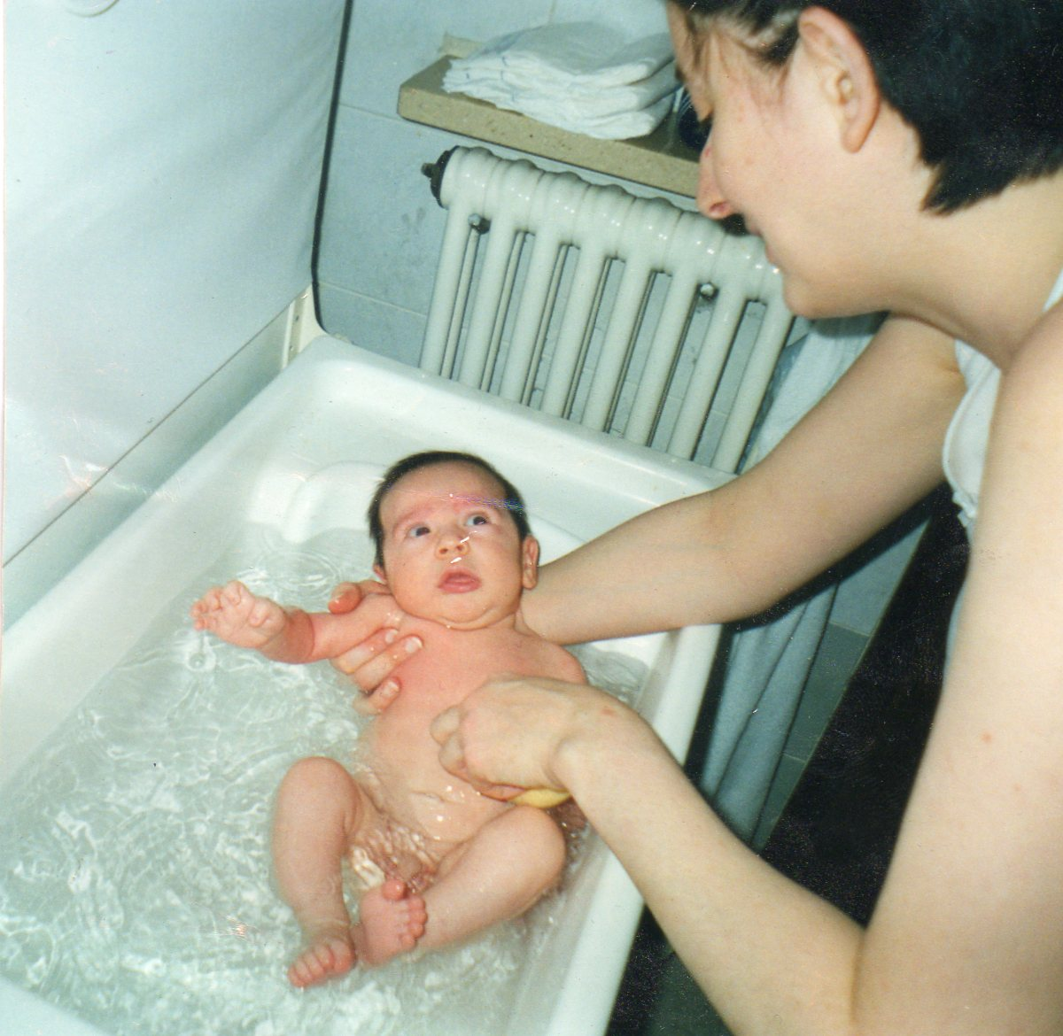 I'm baby